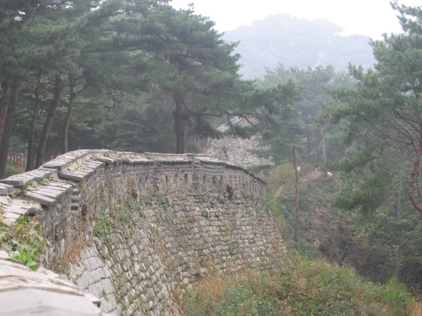 castle wall of Namhan Moutain Castle(part)